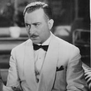 Alberto Bello- actors